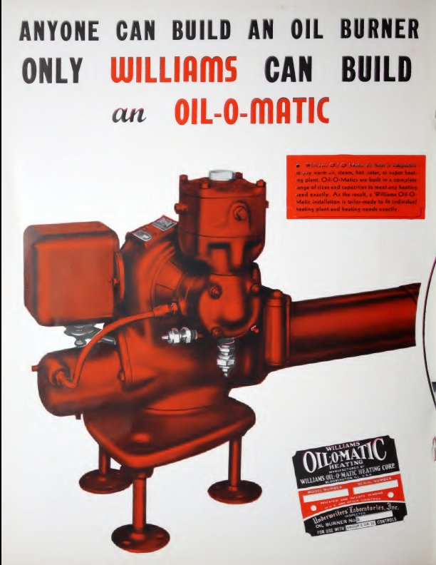 Screen capture showing a Williams Oil-O-Matic oil heater, also shows the company logo at the bottom.